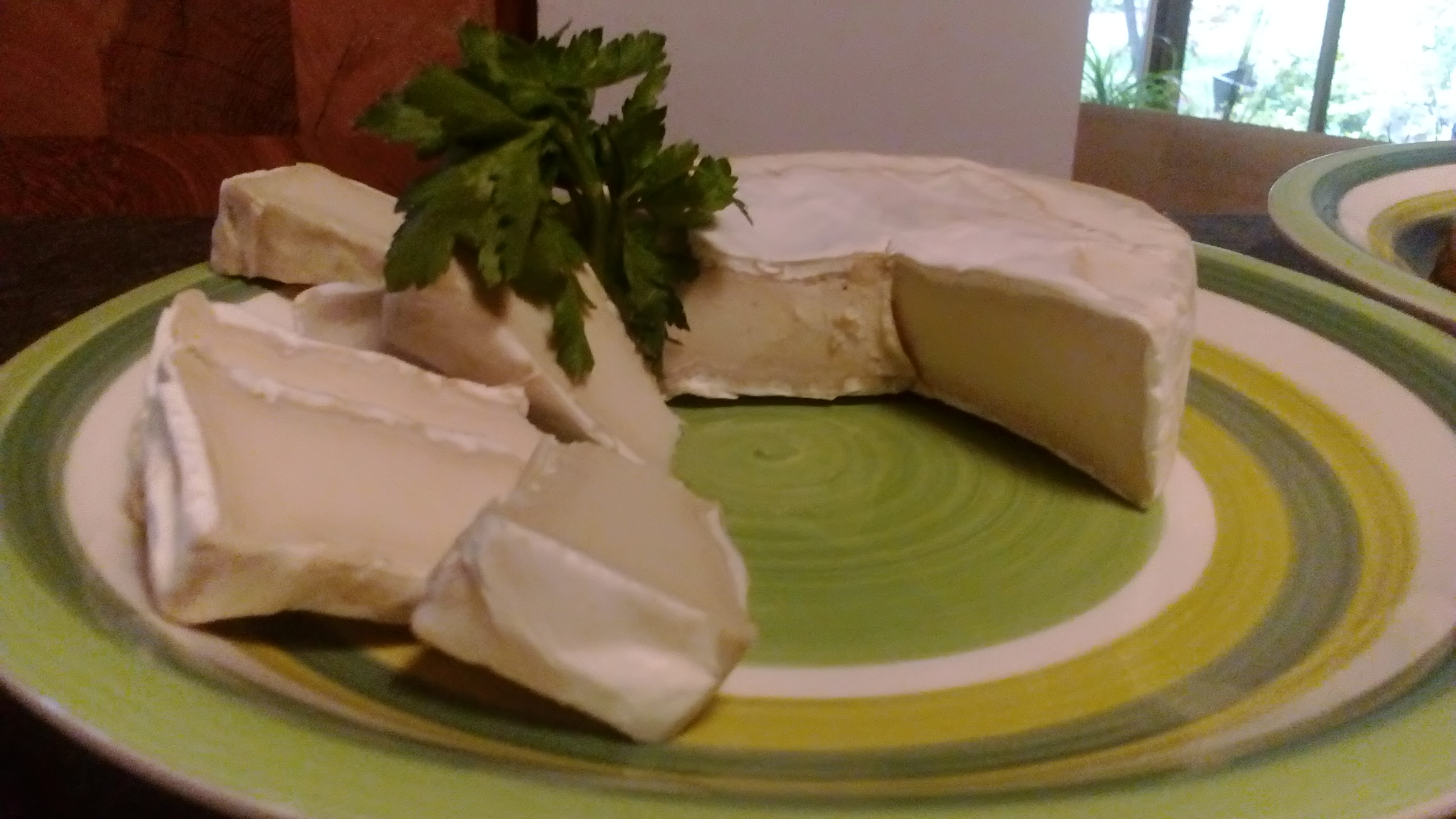 Vegan Cheese based on cashew seeds. "Happy White, Camembert-Alternative, 150g" by German producer "Happy Cheeze" Ingredients: Cashew kernels (76%), filtered water, Himalayan stone salt, vegan fermentation and mold cultures